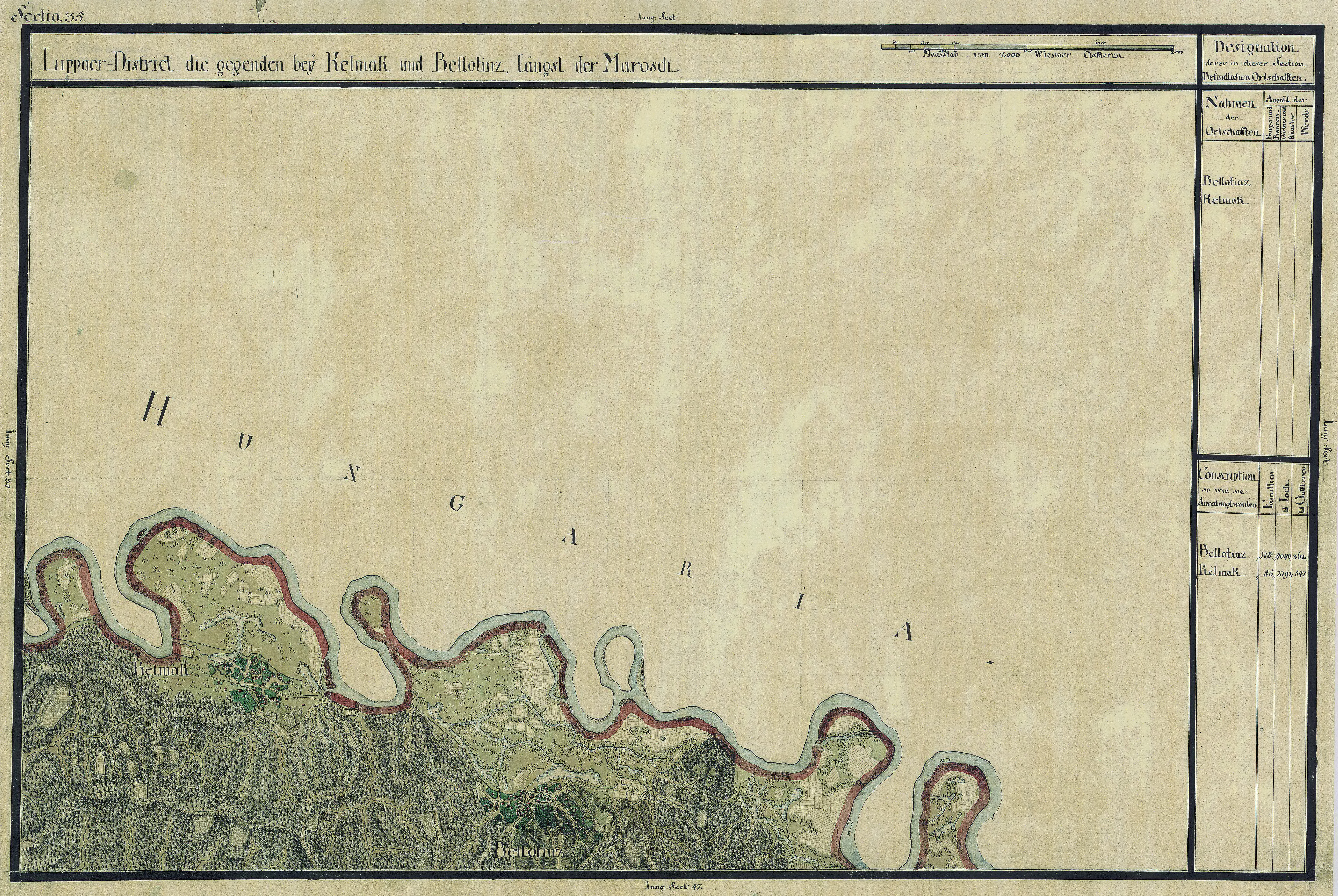 The Banat region in the cadastral maps: Josephinische Landesaufnahme, 1769-72. Josephinische Landaufnahme pg035